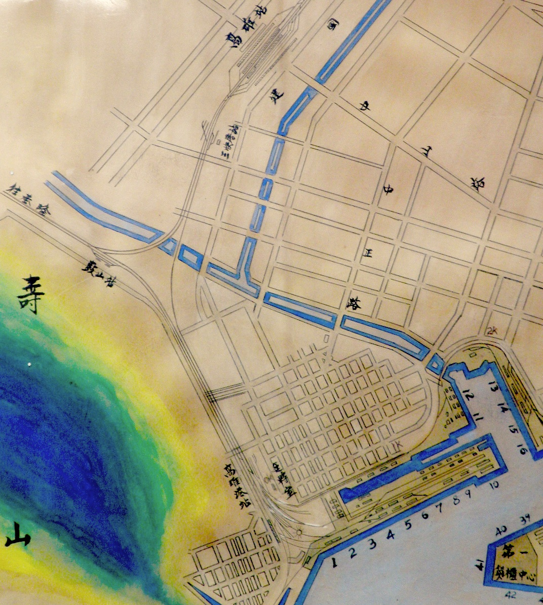 The railway map of Kaohsiung Harbor.